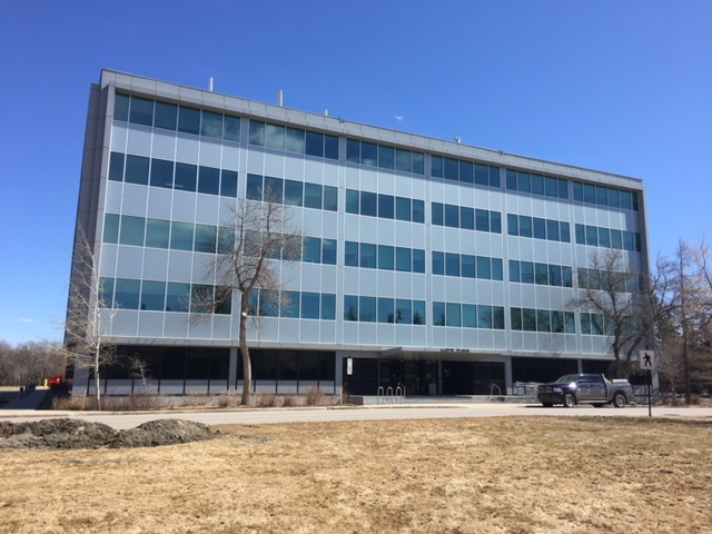 Lloyd Building, Regina, Saskatchewan